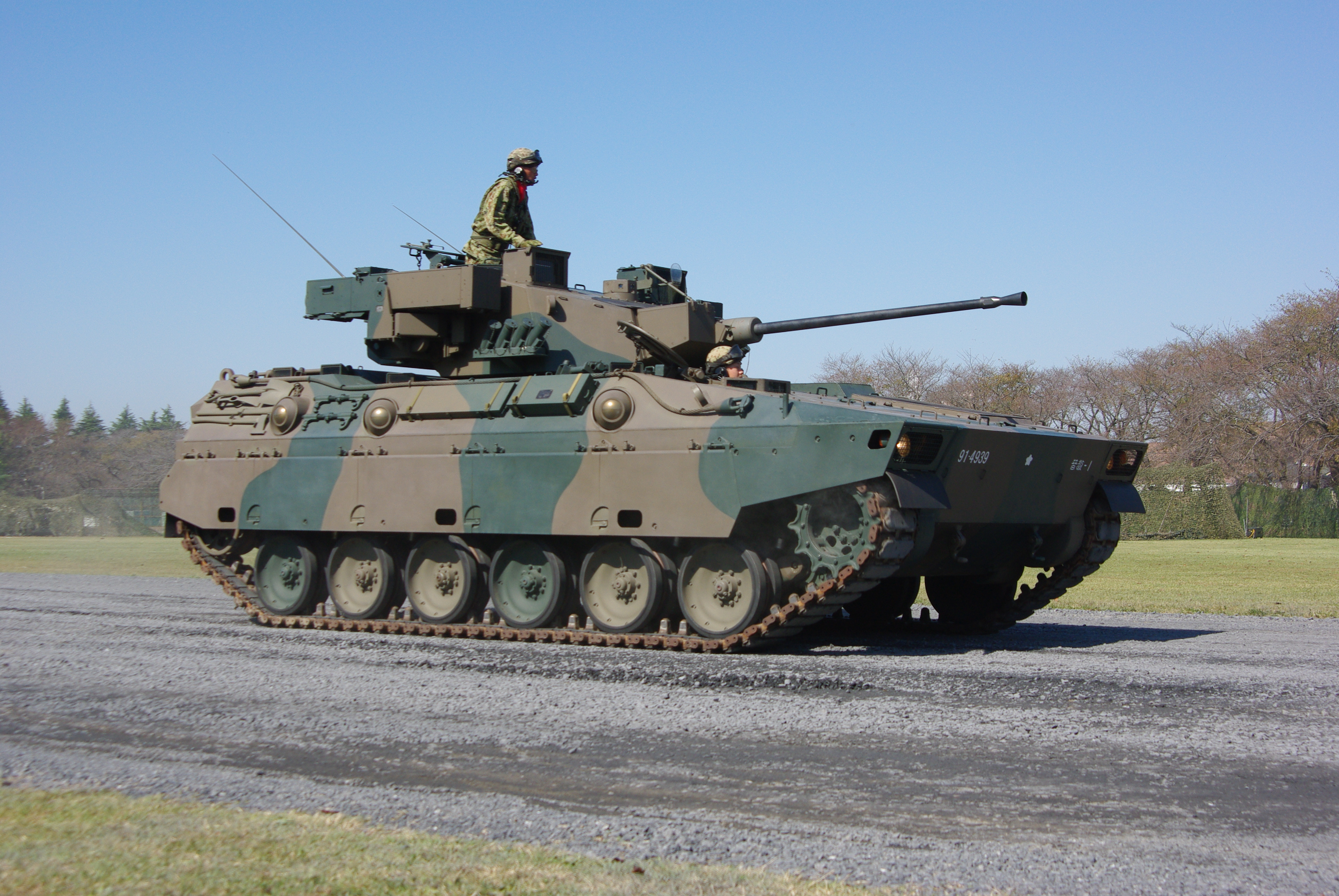 JGSDF IFV, Infantry Training unit.Taken by Los688,21-Oct-2012,JGSDF Camp-Katsuta.PD-self. ja:2012年10月21日、投稿者撮影。陸上自衛隊勝田駐屯地記念行事。89式装甲戦闘車 普通科教導隊。